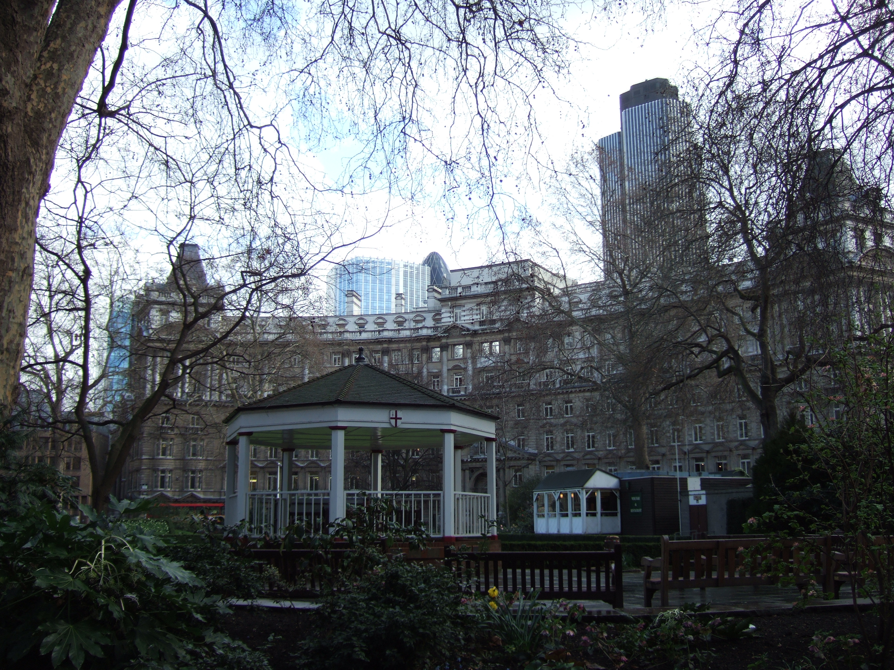 Finsbury Circus, City of London